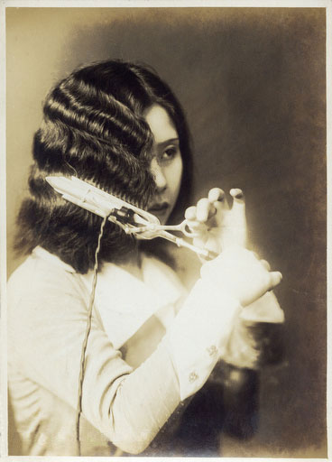 Japanese woman Curling Hair